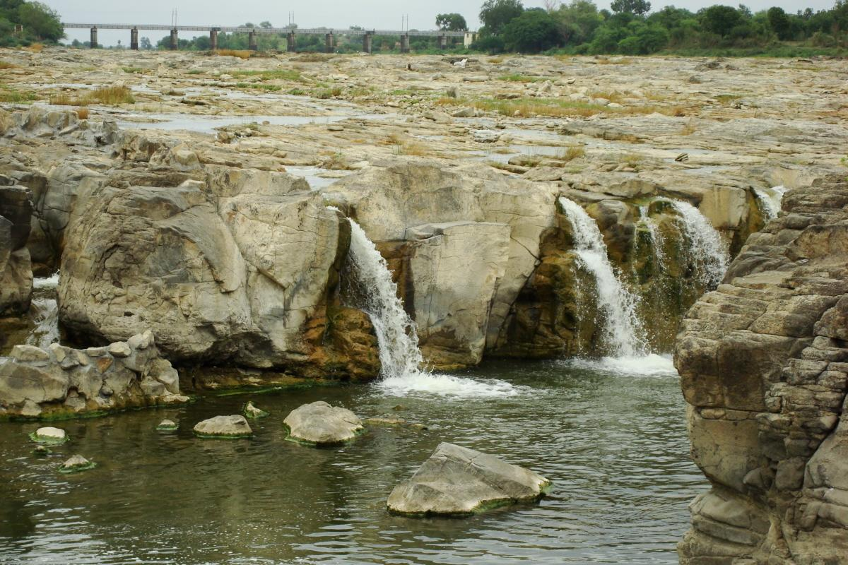 Clicked at panchadhara Pulgaon by me Abhijeet Wankhade & Akhil Kamble